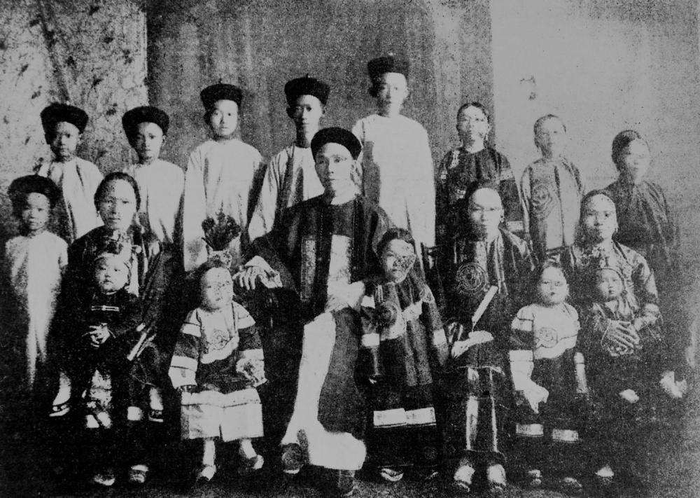 Kwong Sue Duk, a Chinese immigrant living in Cairns, photographed with his three wives and fourteen children in 1904.